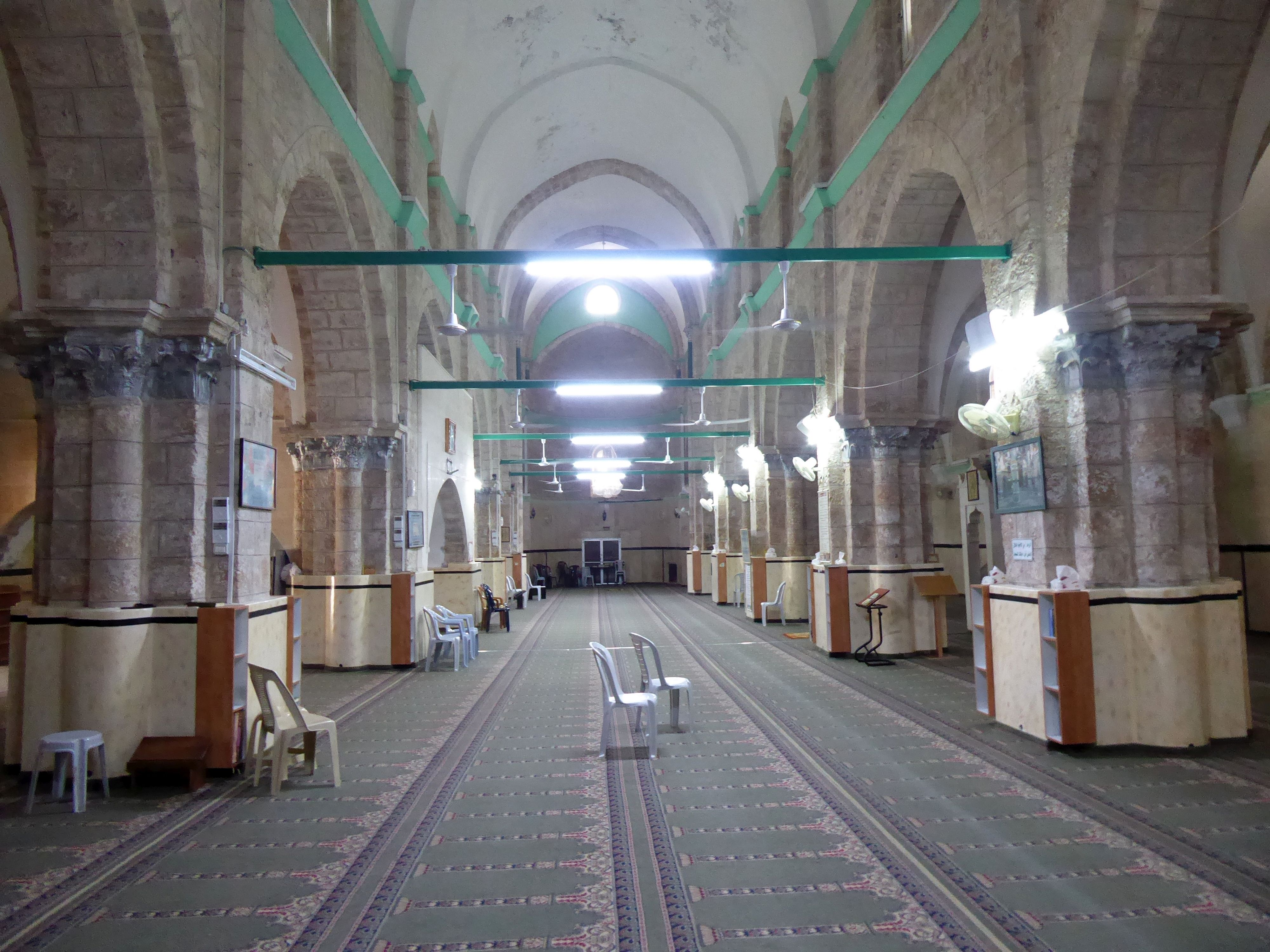 Great mosque of Ramla (St John's Church)